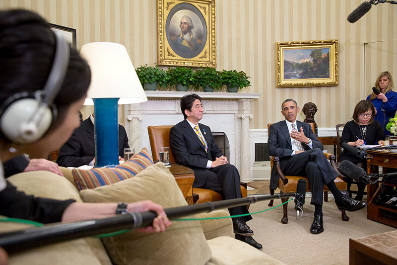 President Obama Meets with Prime Minister Abe of Japan